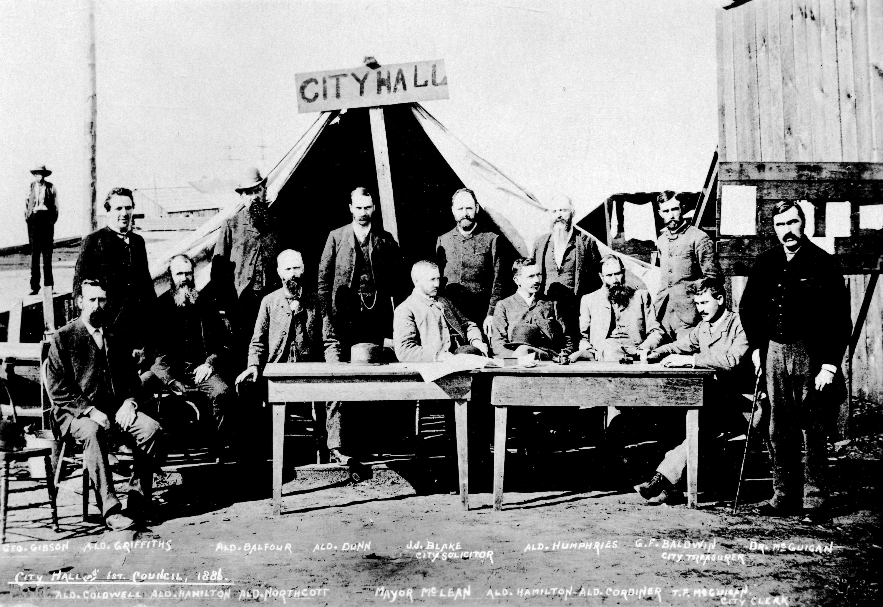 The first Vancouver City Council after the 1886 fire. Improvised City Hall (tent) on C.P.R. pier at foot of Main - City Council at meeting after the fires. The names of council members are as follows: standing (L. to R.): Alderman J. Griffiths, Alderman R. Balfour, Alderman Thos. Dunn, City Solicitor J.J. Blake, Alderman Jos. Humphreys, City Treasurer G.F. Baldwin, City Corner Dr. W.J. McGuigan; Seated (L. to R.): Alderman C.A. Coldwell, Alderman E.P. Hamilton, Alderman J. Northcott, Mayor M.A. McLean, Alderman L.A. Hamilton, Alderman Peter Cordiner, City Clerk T.F. McGuigan; Vacant seat: Alderman Harry Hemlow in Seattle on business; Man standing in background. George W. Gibson, Founder of Gibson's Landing, Howe Sound.